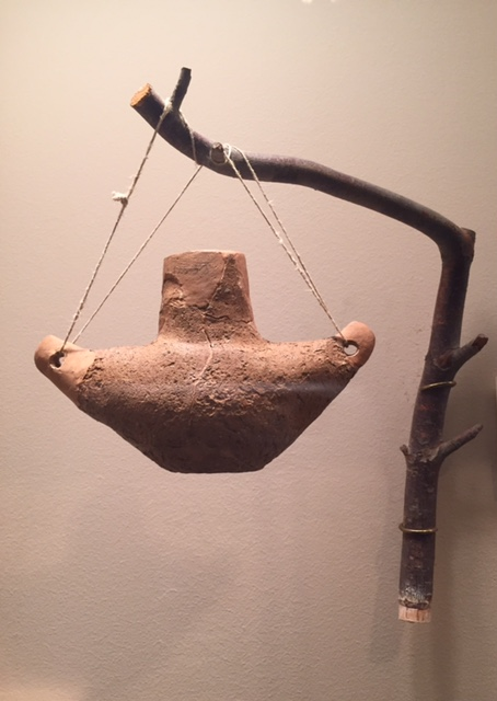 Pottery Churn from the museum of Jordan, Late Chaloclithic (3800-3600BC) found in Tulaylat al-Ghassul northeast of Dead Sea